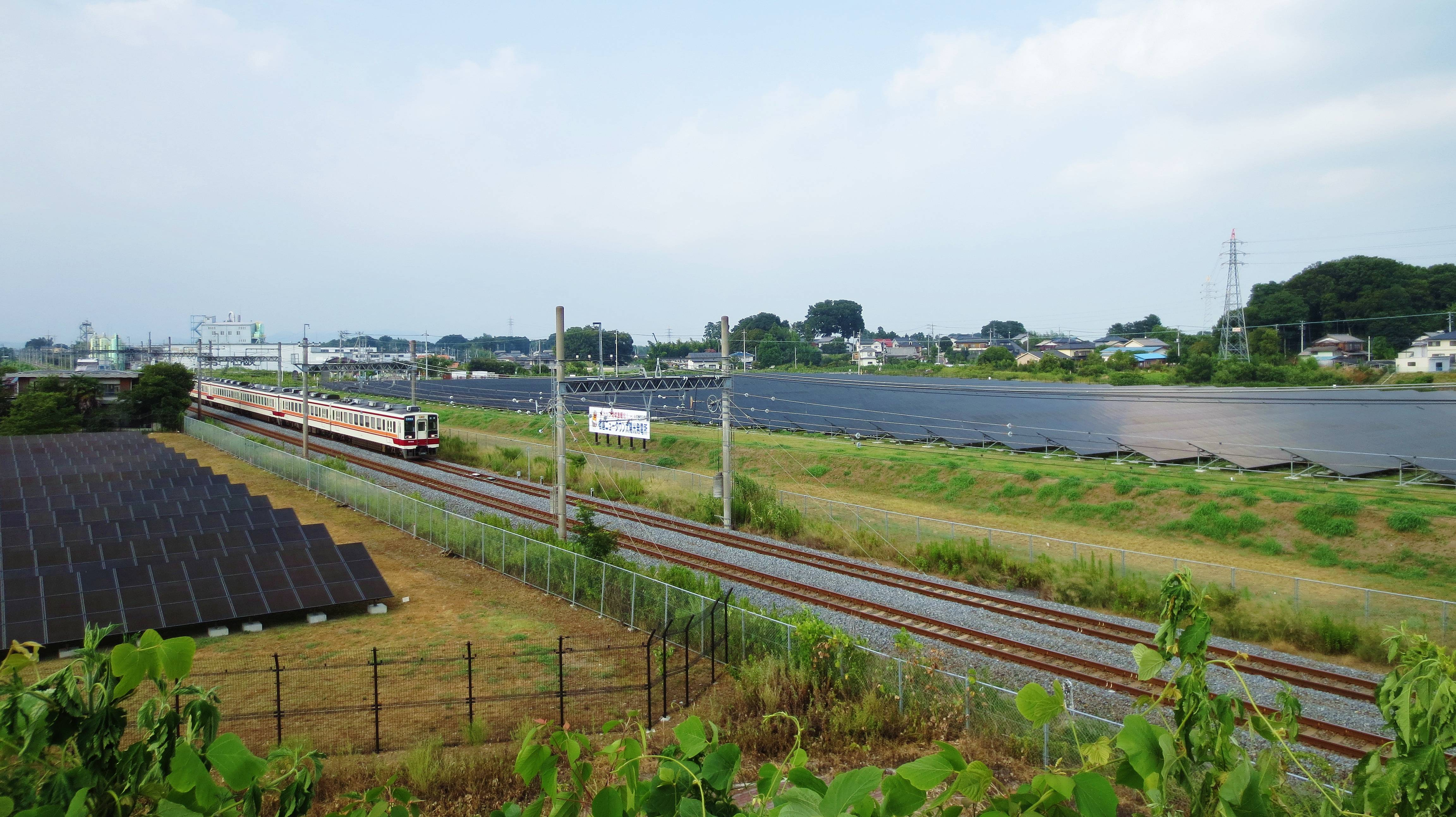 Itakura New Town Photovoltaic Power Station and Tōbu Nikkō Line.